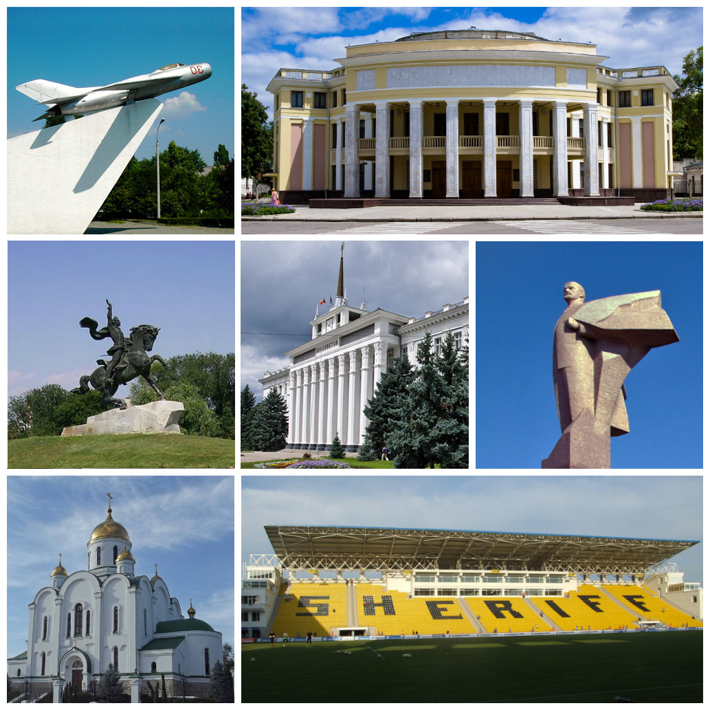 Petrozavodsk collage: Coat of arms of Tiraspol Theatre of Drama and Comedy in Tiraspol The building of the Administration President of Transnistria Monument of Suvorov in Tiraspol Government House and the Supreme Council of Transnistria Church of the Nativity in Tiraspol Stadium of FC Sheriff Tiraspol - inside view